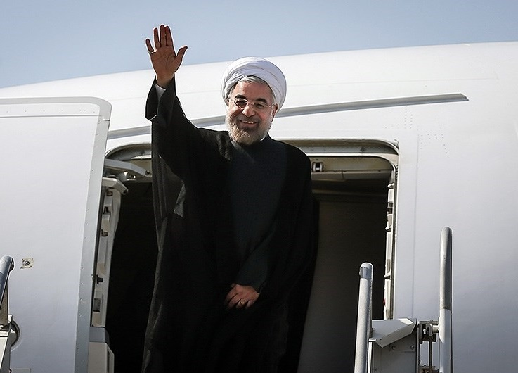 President Rouhani in Mehrabad Airport to travels to New York, United States for Sixty-eighth session of the United Nations General Assembly